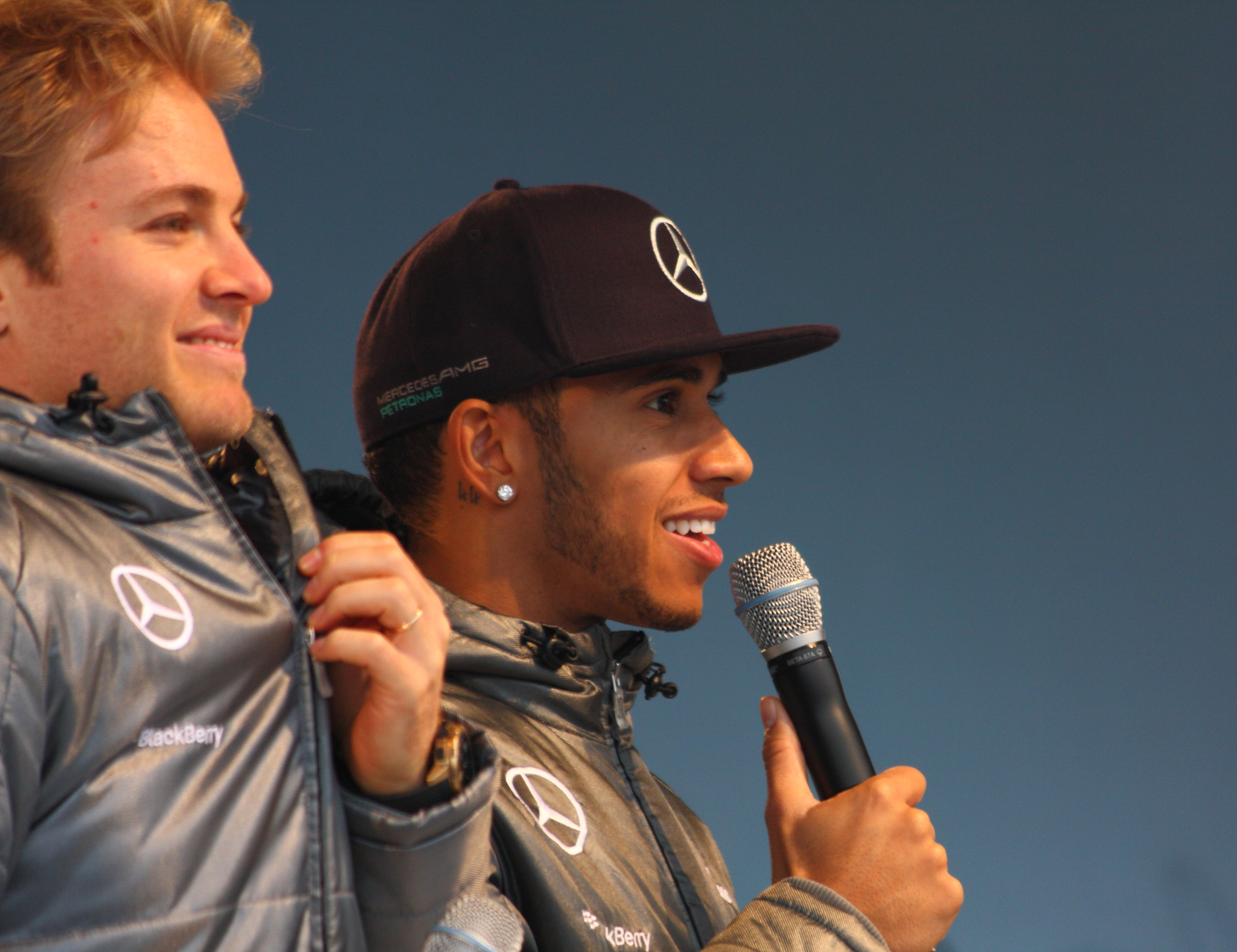 Lewis Hamilton at Stars and Cars 2014